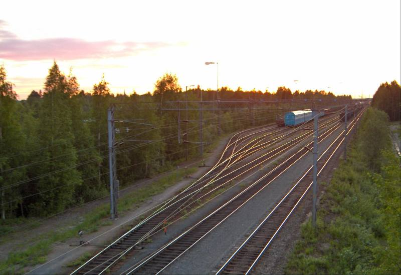 Railroad close to Joensuu railroad station in Joensuu, Finland